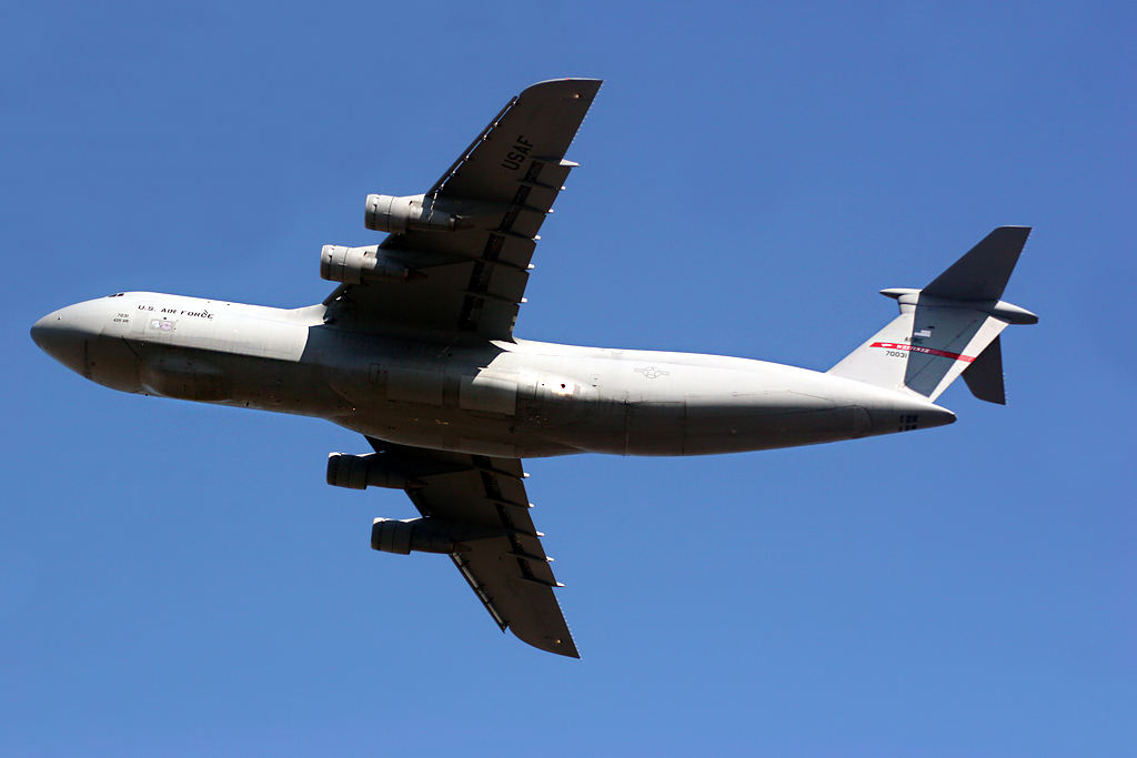 Rota (LERT/ROP) Naval Air Station